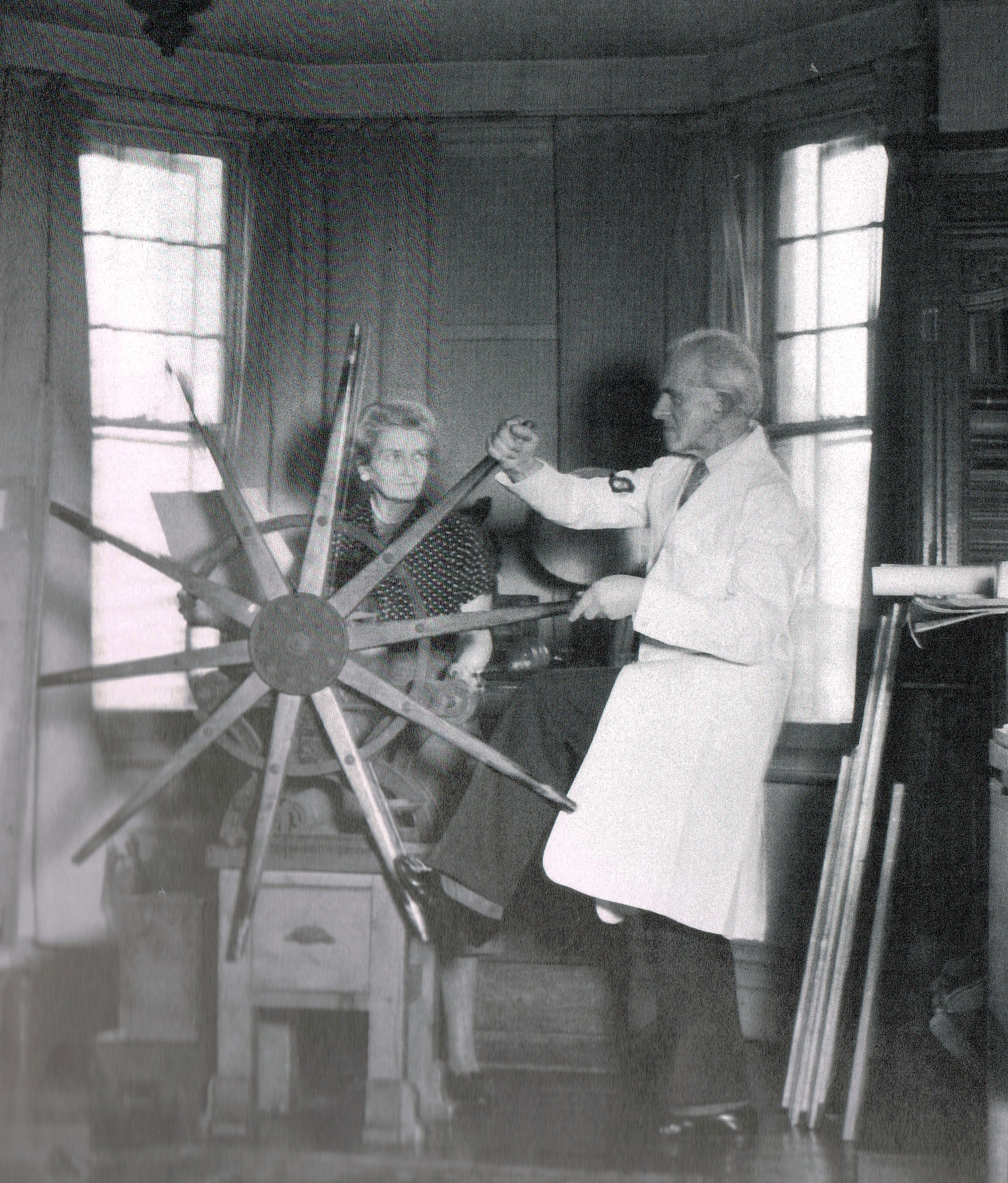 Photograph of Ethel and John printing